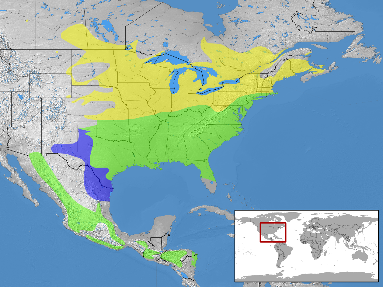 geographic distribution of Sialia sialis Yellow: Native (breeding seasons only) Blue: Native (nonbreeding seasons only) Green: Native (year round)